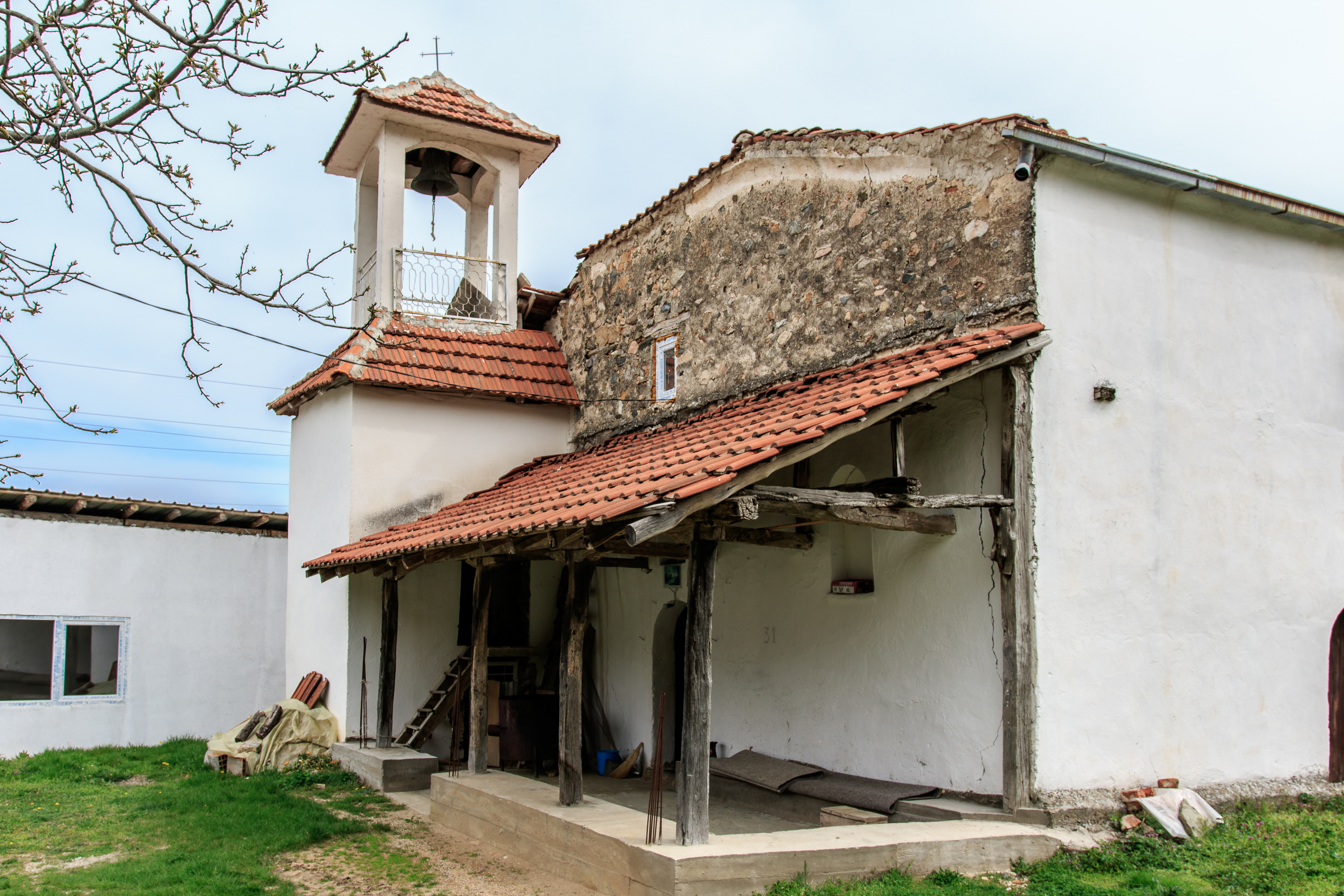 View of the Church of Sts. Constantine and Helena in the village Lubnica